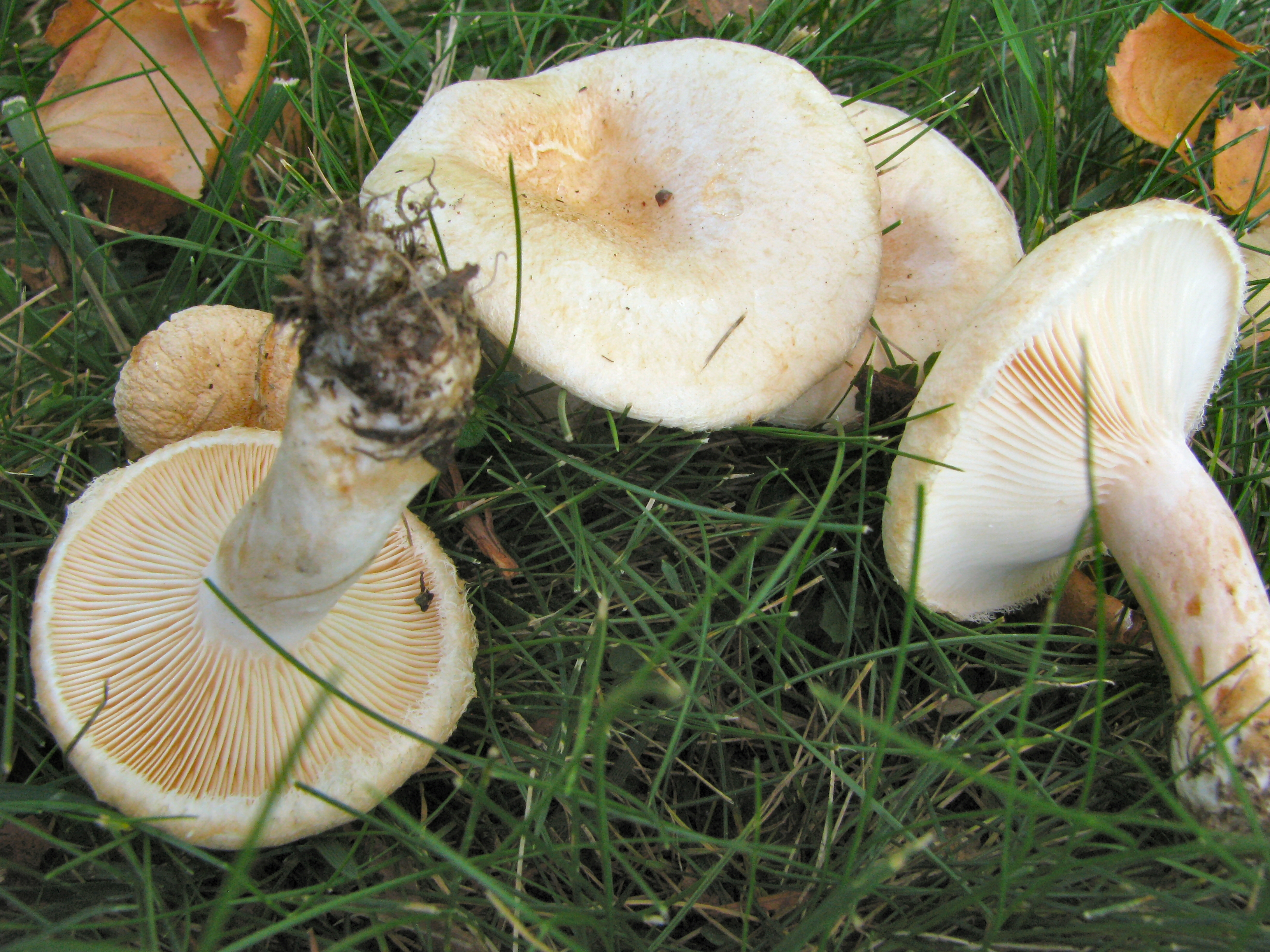 The "downy milkcap", species Lactarius pubescens (var. betulae). Specimens photographed in Sebastopol, Sonoma Co., California, USA. "Notes: growing in lawn on Vine Hill Road, clearly grouped near the white birch tree."